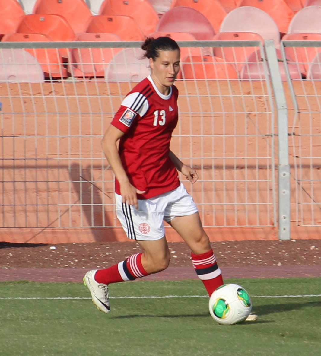 Johanna Rasmussen. Israel - Denmark, 2015 FIFA Women's World Cup qualification UEFA Group 3, 19 June 2014.